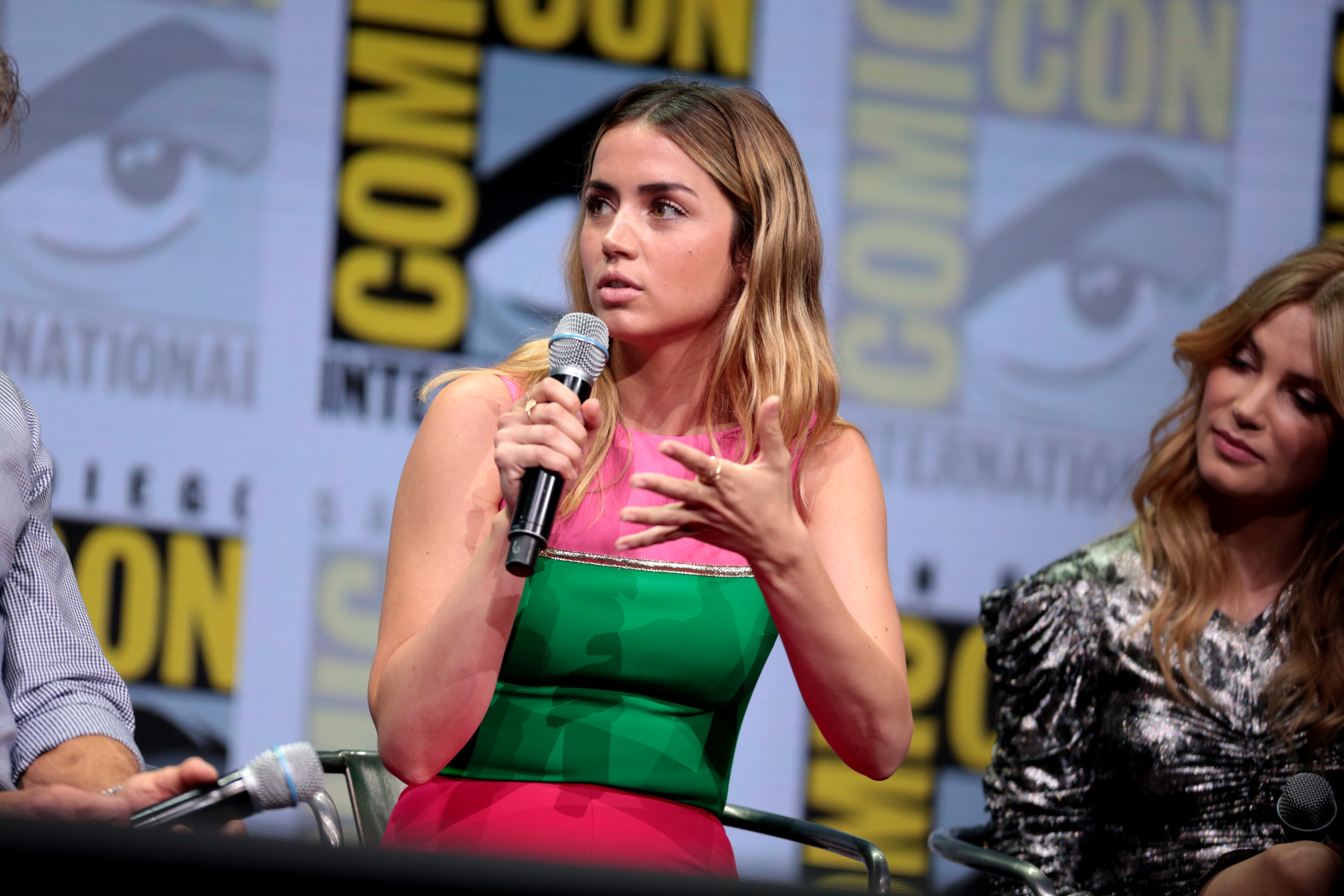 Ana de Armas speaking at the 2017 San Diego Comic Con International, for "Blade Runner 2049", at the San Diego Convention Center in San Diego, California.